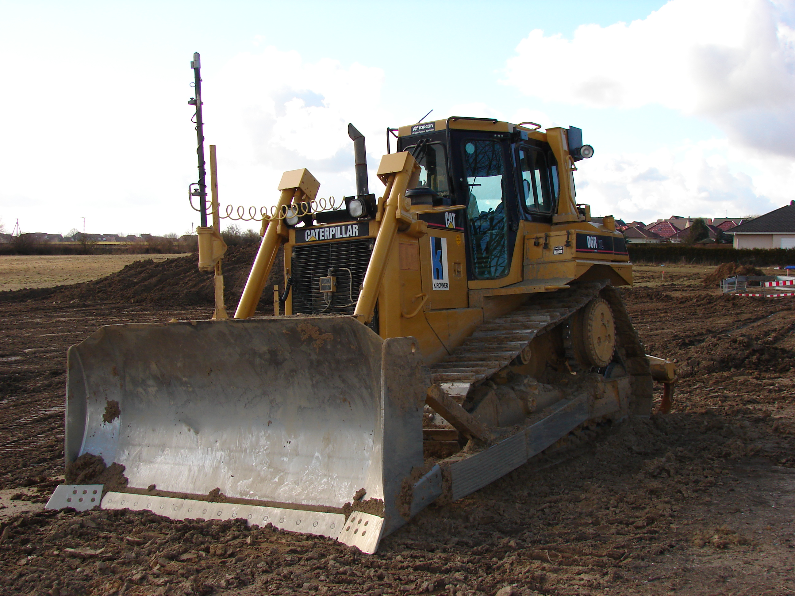 Caterpillar D6R bulldozer